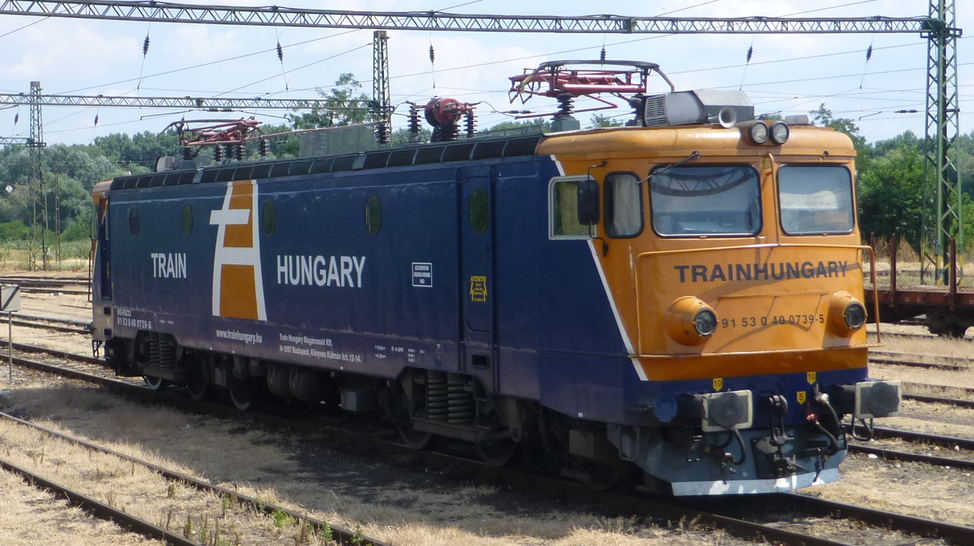 Type ASEA 400 electric locomotive of the Train Hungary in Szeged-Rendező station. The engine working on the Hungarian railways, but has a Romanian registry number. The Train Hungary is the Hungarian subsidiary of the Romanian Grup Feroviar Român.